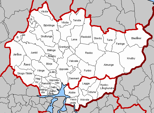 Old municipalities in Uppsala and Knivsta